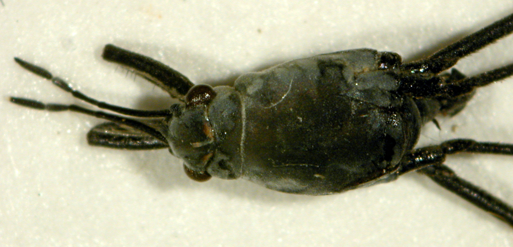 Fotografiert in der Zoologischen Staatssammlung München Halobates micans; Eschscholtz, 1822